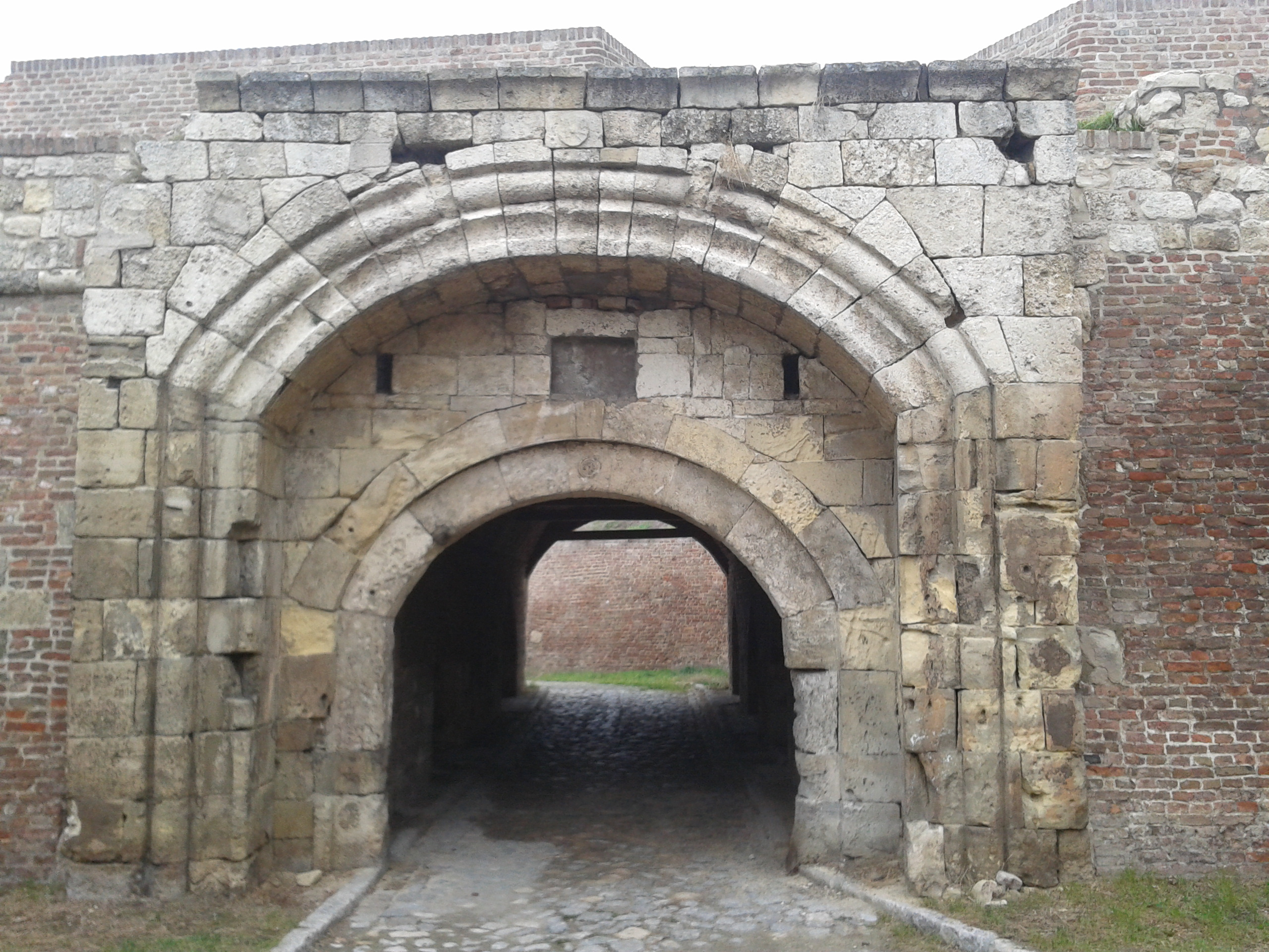 Dark Gate of the Belgrade Fortress.